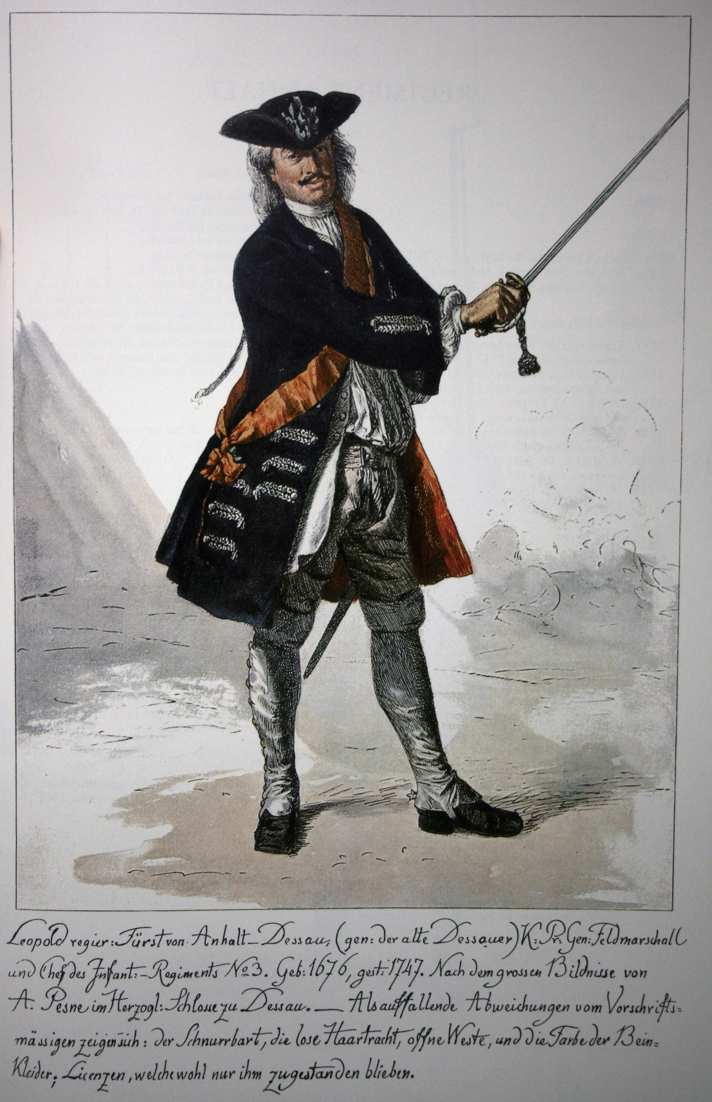 Leopold I, Prince of Anhalt-Dessau (b. Dessau, 3 July 1676 - d. Dessau, 7 April 1747) was a German prince member of the House of Ascania and ruler of the Principality of Anhalt-Dessau, also he was a Generalfeldmarschall in the Prussian Army. Nicknamed "the Old Dessauer" (German: der alte Dessauer), was a minor field commander but a talented drill master who modernized the Prussian infantry.